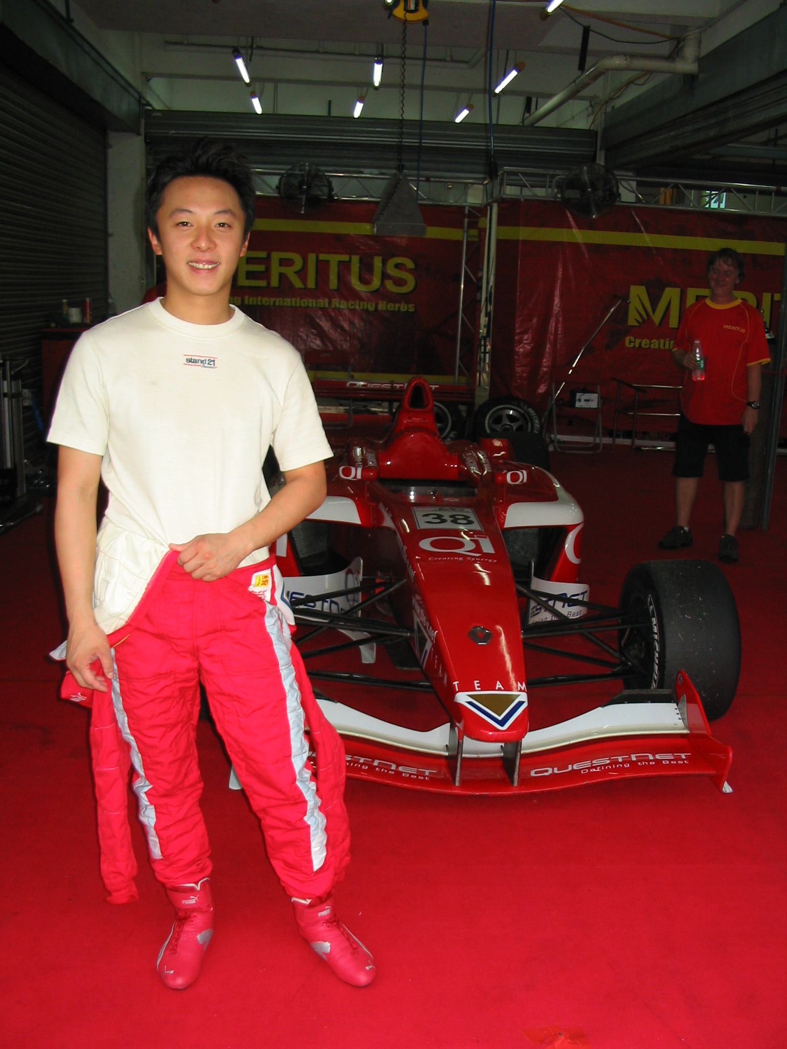 A portrait of Marchy Lee, a Chinese Hong Kong racing driver at the Zhuhai International Circuit on 20th October 2006.